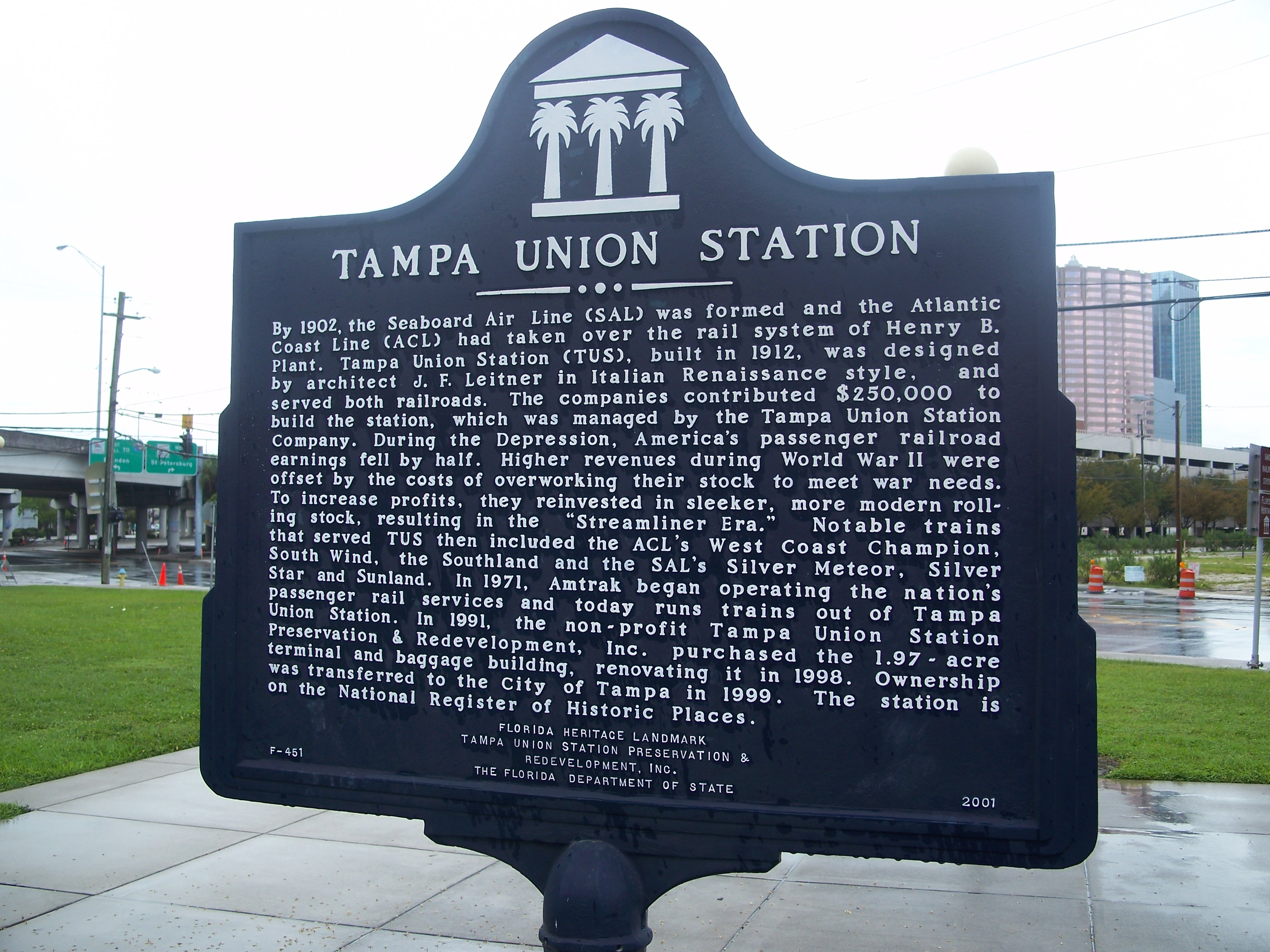 Historical marker outside the old Union Railroad Station, in Tampa, Florida